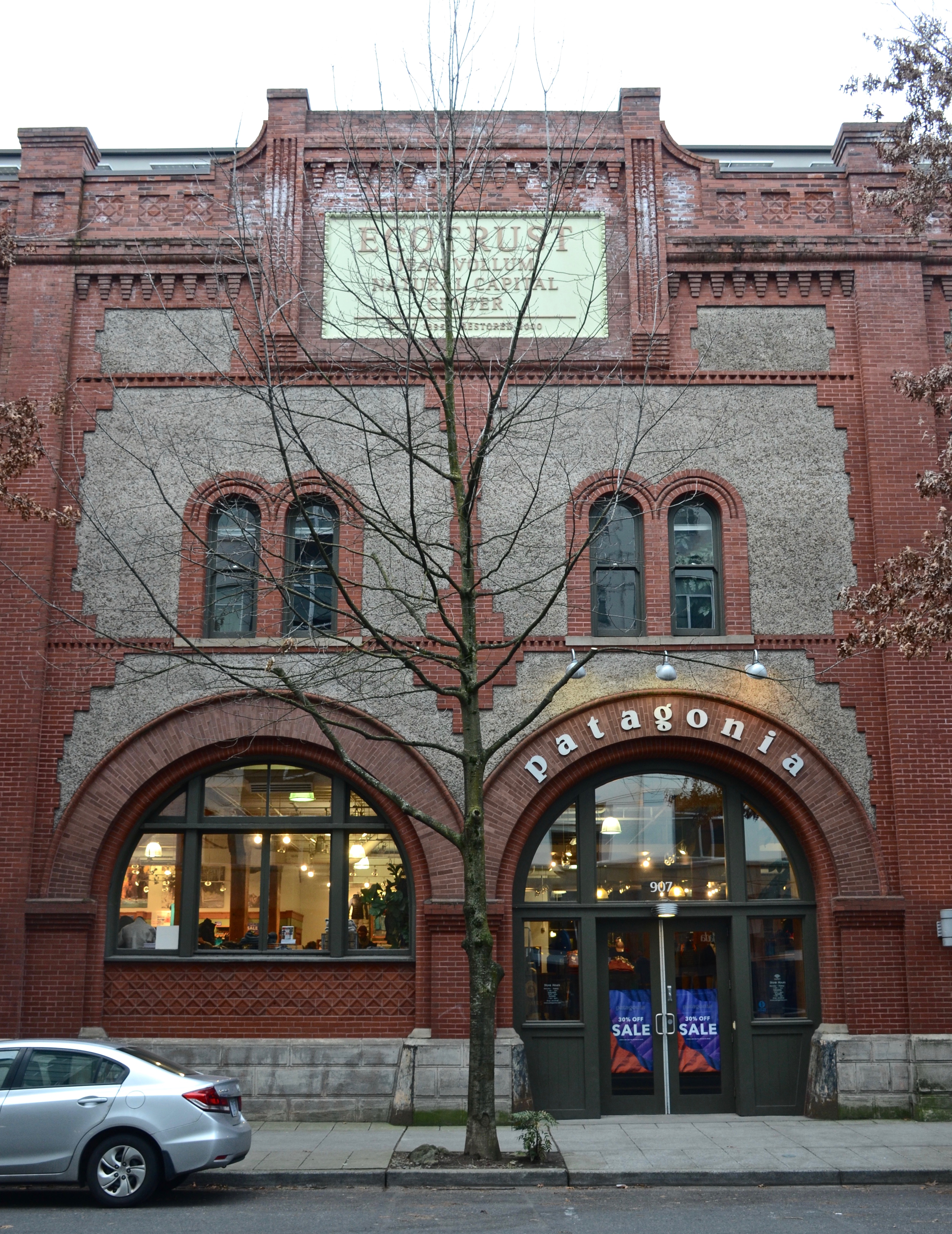 The south end of the Natural Capital Center, in Portland, Oregon, on NW Irving Street. This end of the 1895 building had a Patagonia clothing store on its ground floor from 2001 to 2017, but the store closed around the end of March 2017 and moved a few blocks south, to a new location on West Burnside Street.